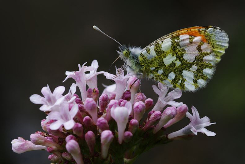 A male Grüner's Orange Tip (Anthocharis gruneri). Erdemli, Mersin - Turkey.